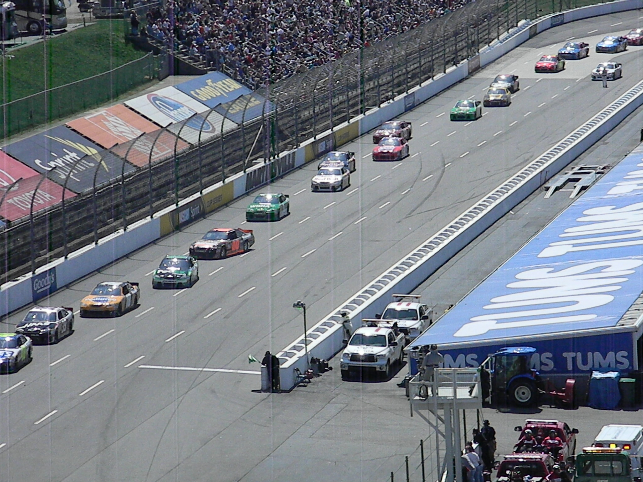 The backstretch of Martinsville Speedway during the 2011 Goody's Fast Relief 500.